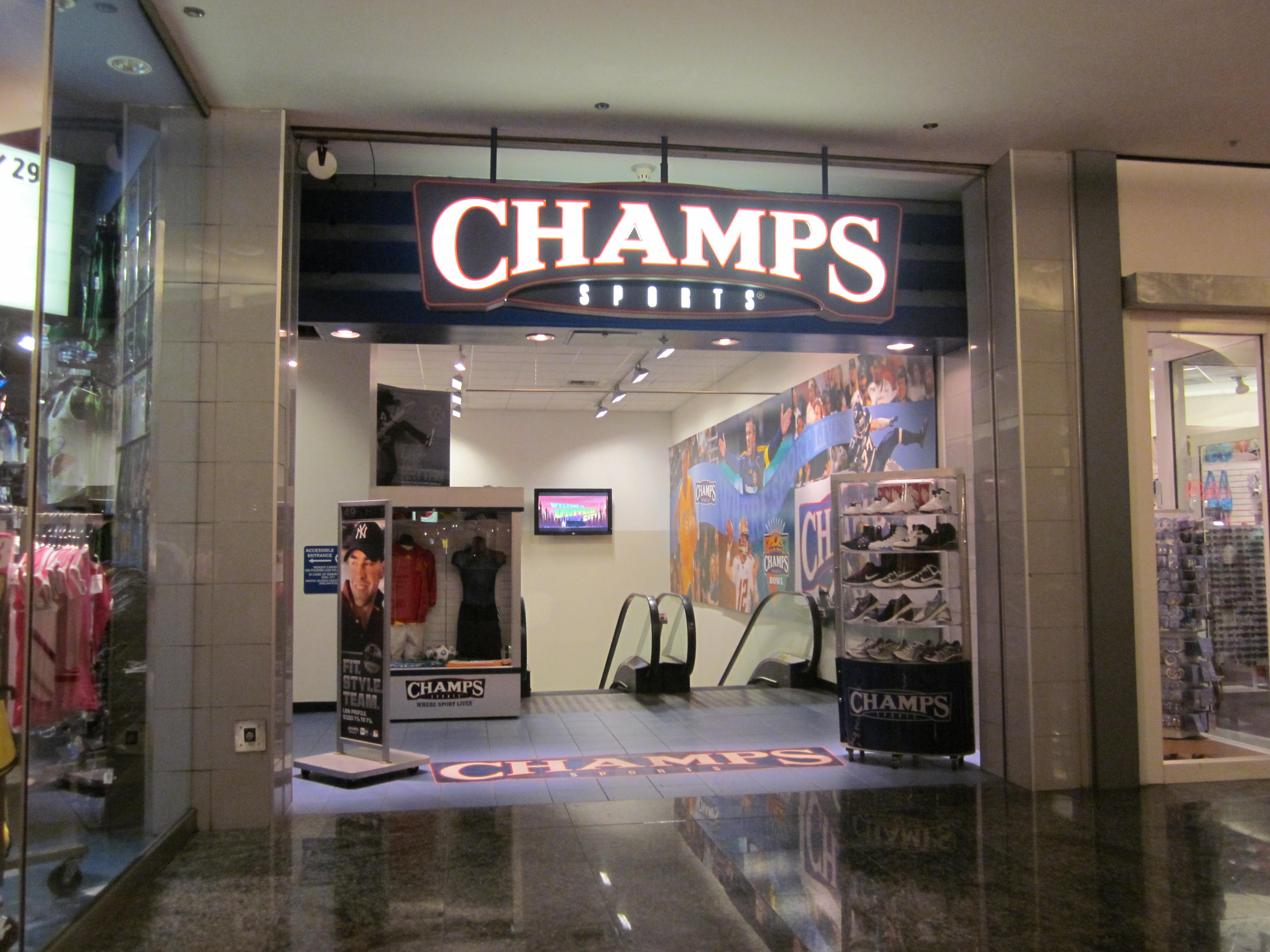 Champs Sports at the Westfield San Francisco Centre, San Francisco